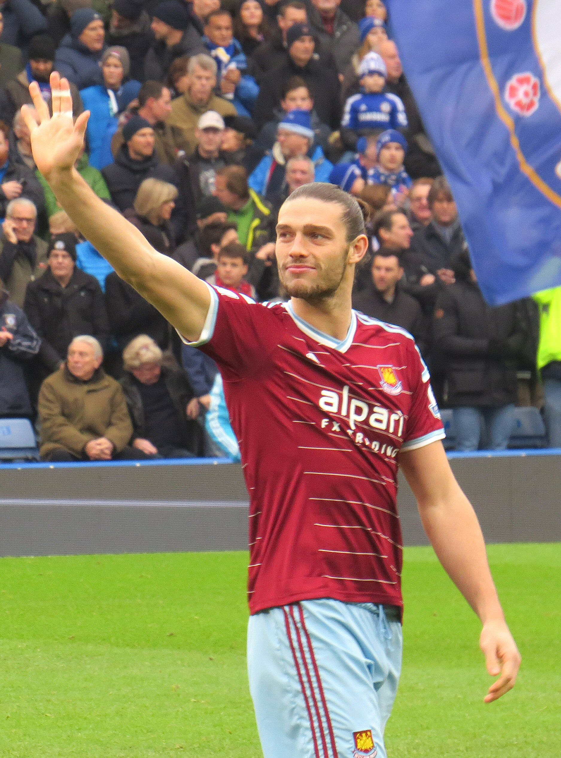 Andy Carroll away to Chelsea December 2014